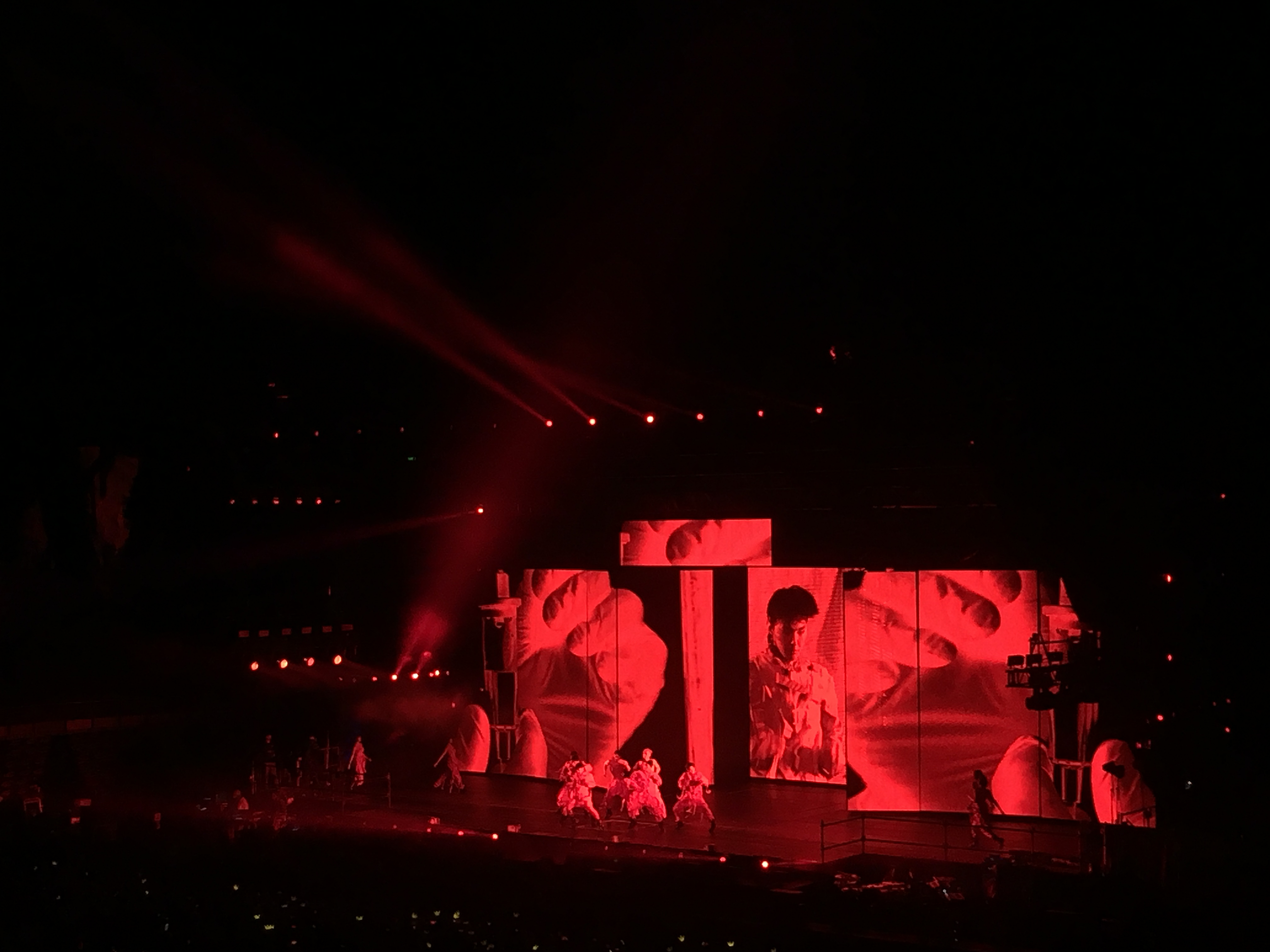 G-Dragon first solo concert in Sydney, Australia on August 5th, 2017